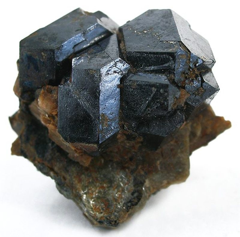 Uraninite Locality: Swamp #1 quarry, Topsham, Sagadahoc County, Maine, USA (Locality at ) Size: 2.7 x 2.4 x 1.4 cm. These specimens found in the late 1950s represent the pinnacle of crystallized uraninite, to most collectors. This beautiful large thumbnail features a dominant 1.5-cm-across crystal perched atop smaller ones, on matrix. Ex. Ken Hollman Collection.